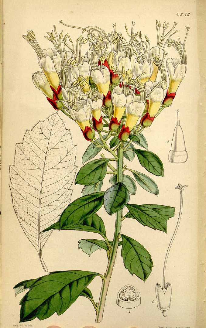 Cantua pyrifolia